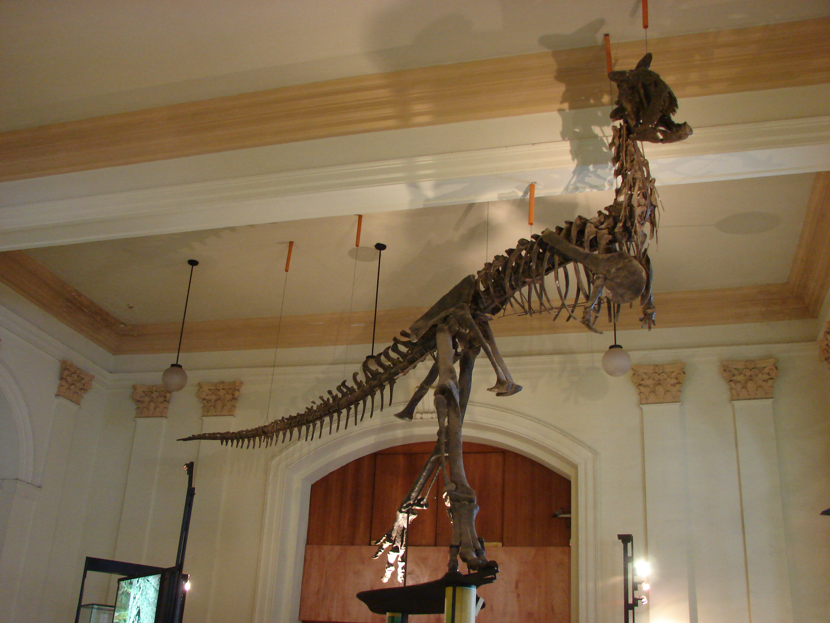 Carnotaurus_sastrei on display at the Museo Nacional de Historia Natural in Santiago, Chile. Photo taken 2009-May-24.